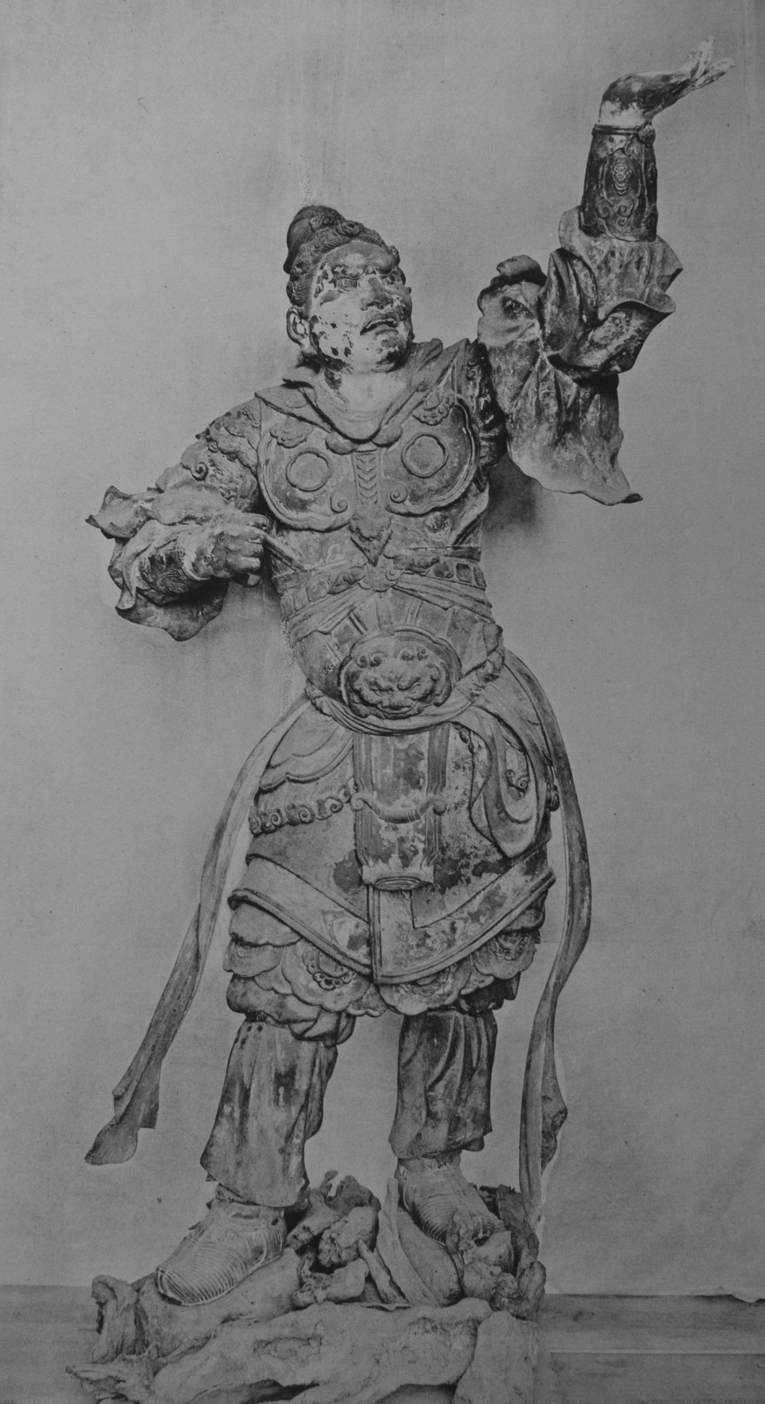 Kofukuji, Nara, Japan. Sculpture by Kōkei, 1189, wood+color.